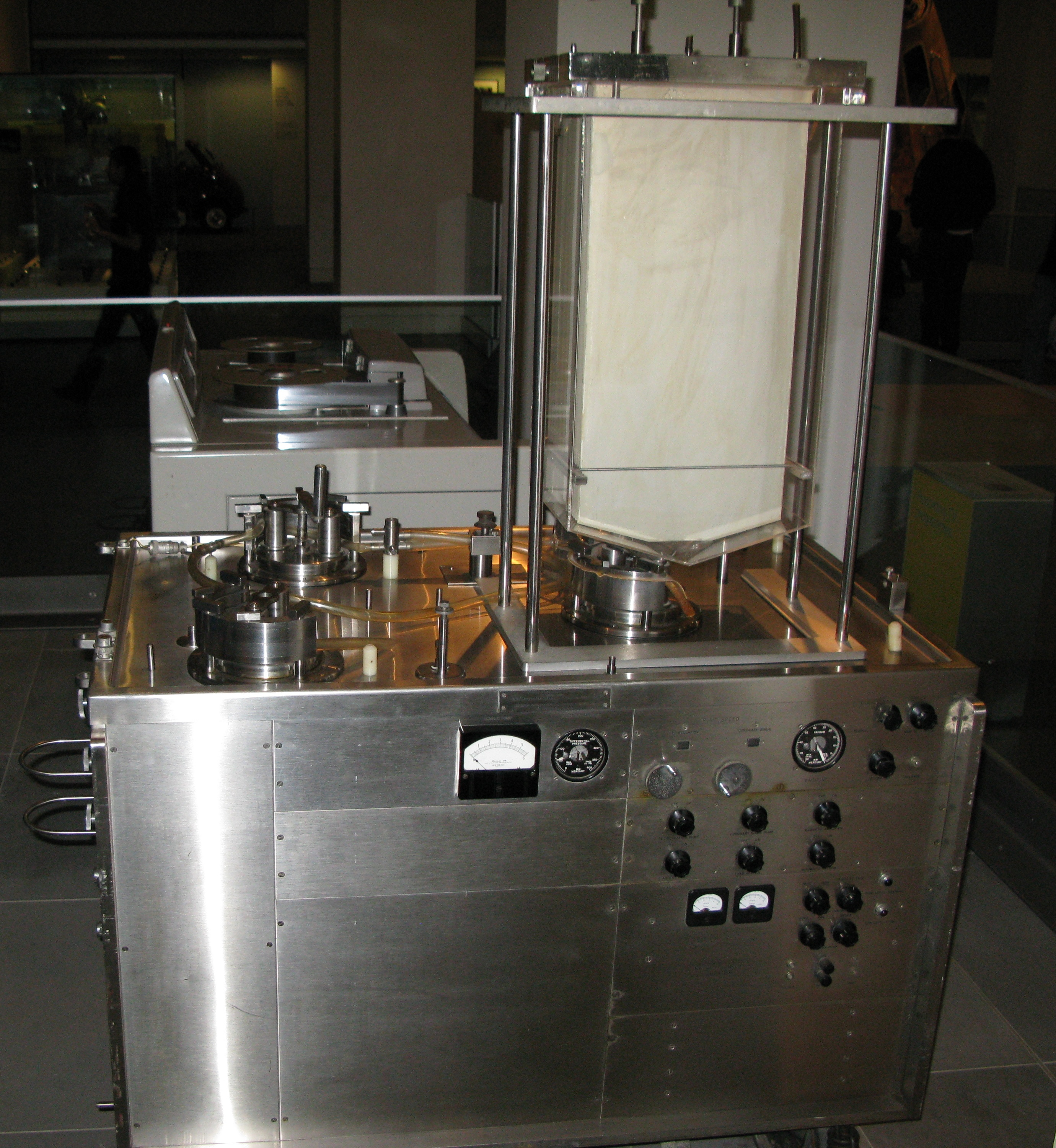 Photo of a Heart-lung machine dating from 1958 (design first appeared in 1955). Used in London's middlesex hospital. Now in the science museum, London